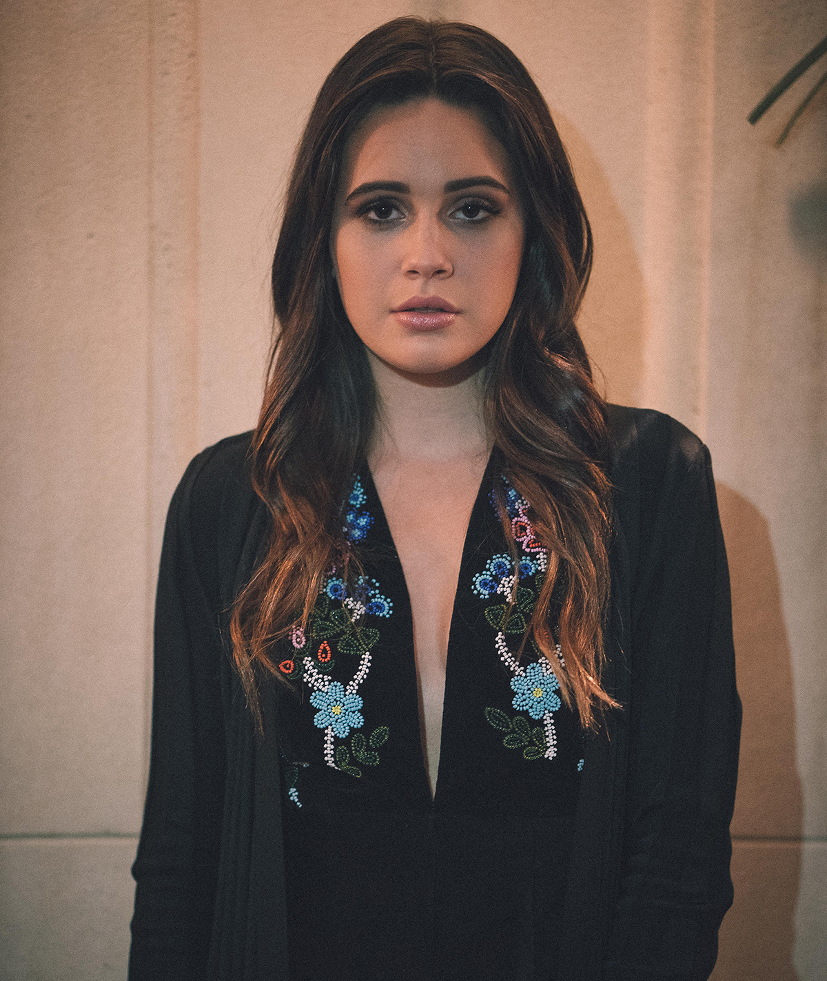 A 2016 photo of American singer-songwriter Bea Miller.